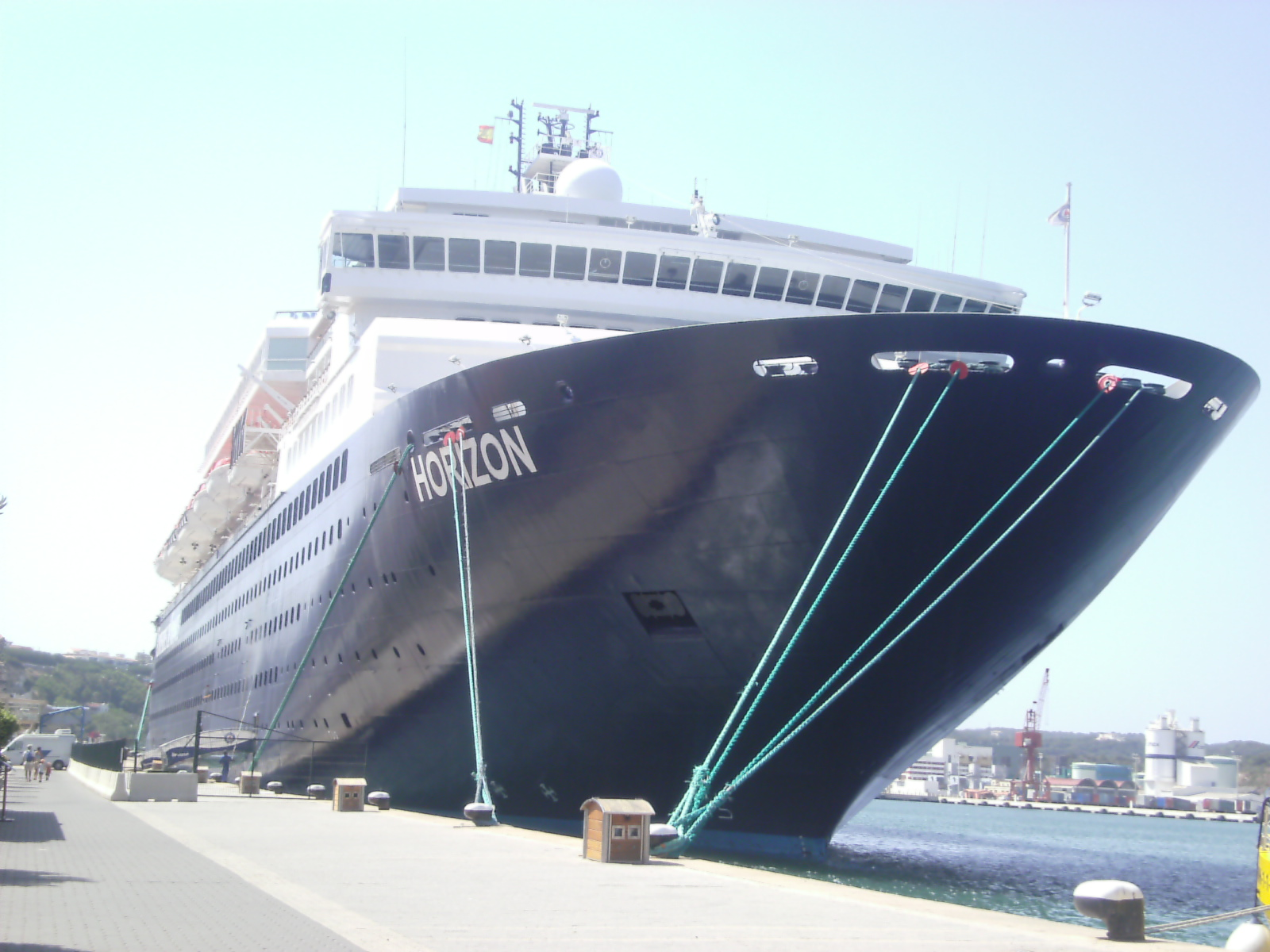 MV Horizon at Mahon Port, Menorca, on 3 August 2012.